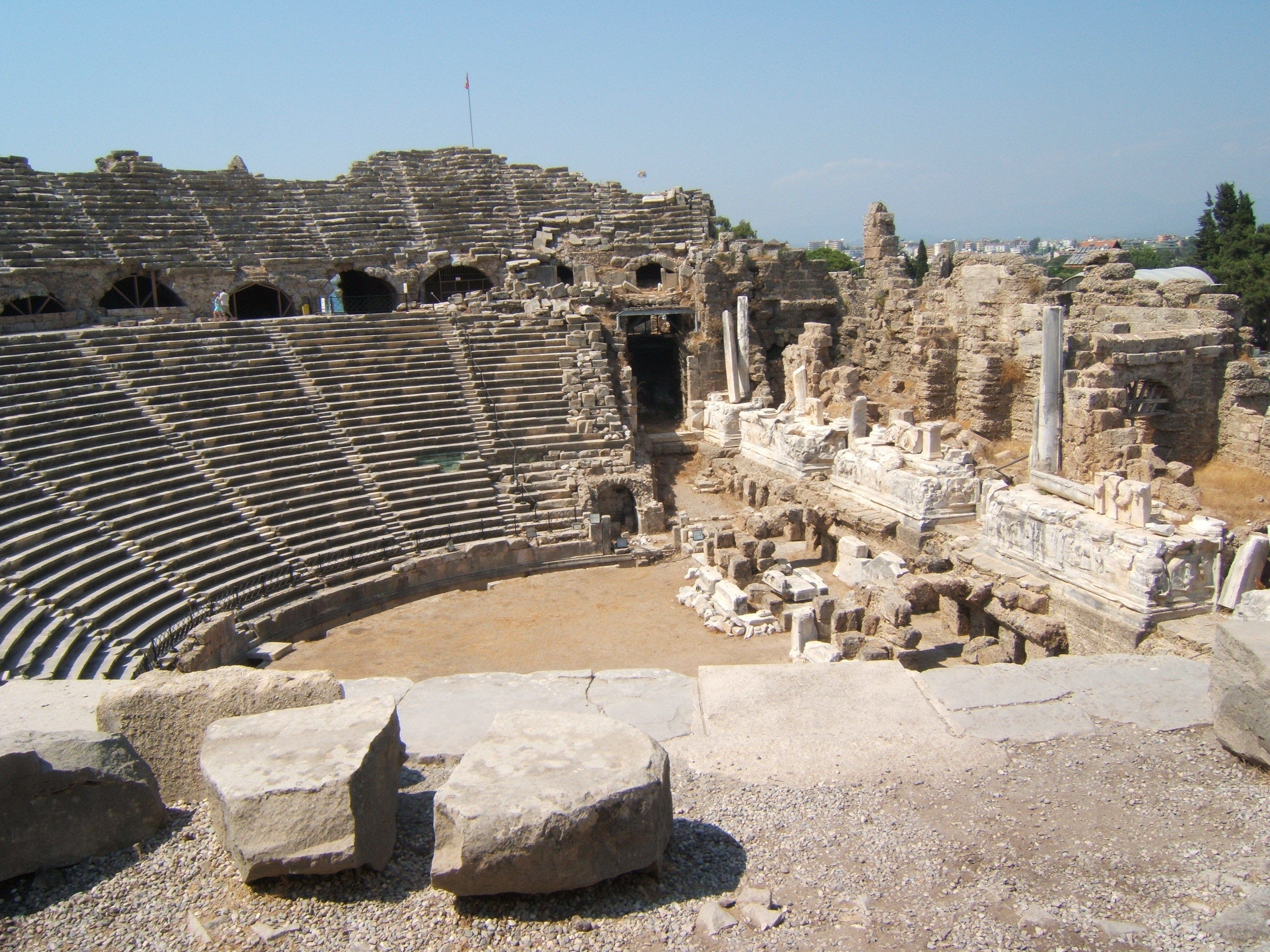 Amphitheatre in Side